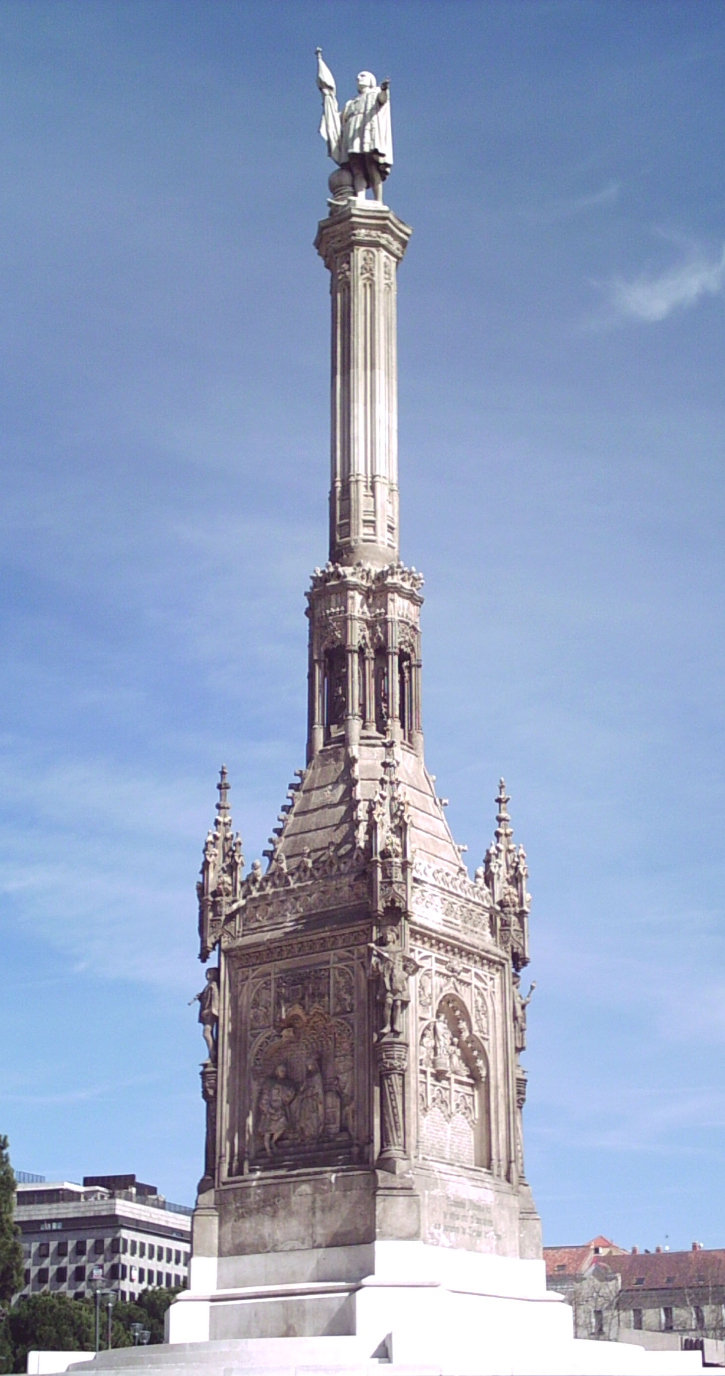 Monument to Cristopher Columbus (1451?–1506) at the Plaza de Colón ("Columbus Square") in Madrid (Spain). Built between 1881 and 1885. Square base with reliefs and octagonal pillar were sculpted in stone by Arturo Mélida (1849–1902). Three metres high statue was sculpted in Italian white marble by Jerónimo Suñol (1839–1902). Total height: 17 metres. Reliefs: west, south, east and north.